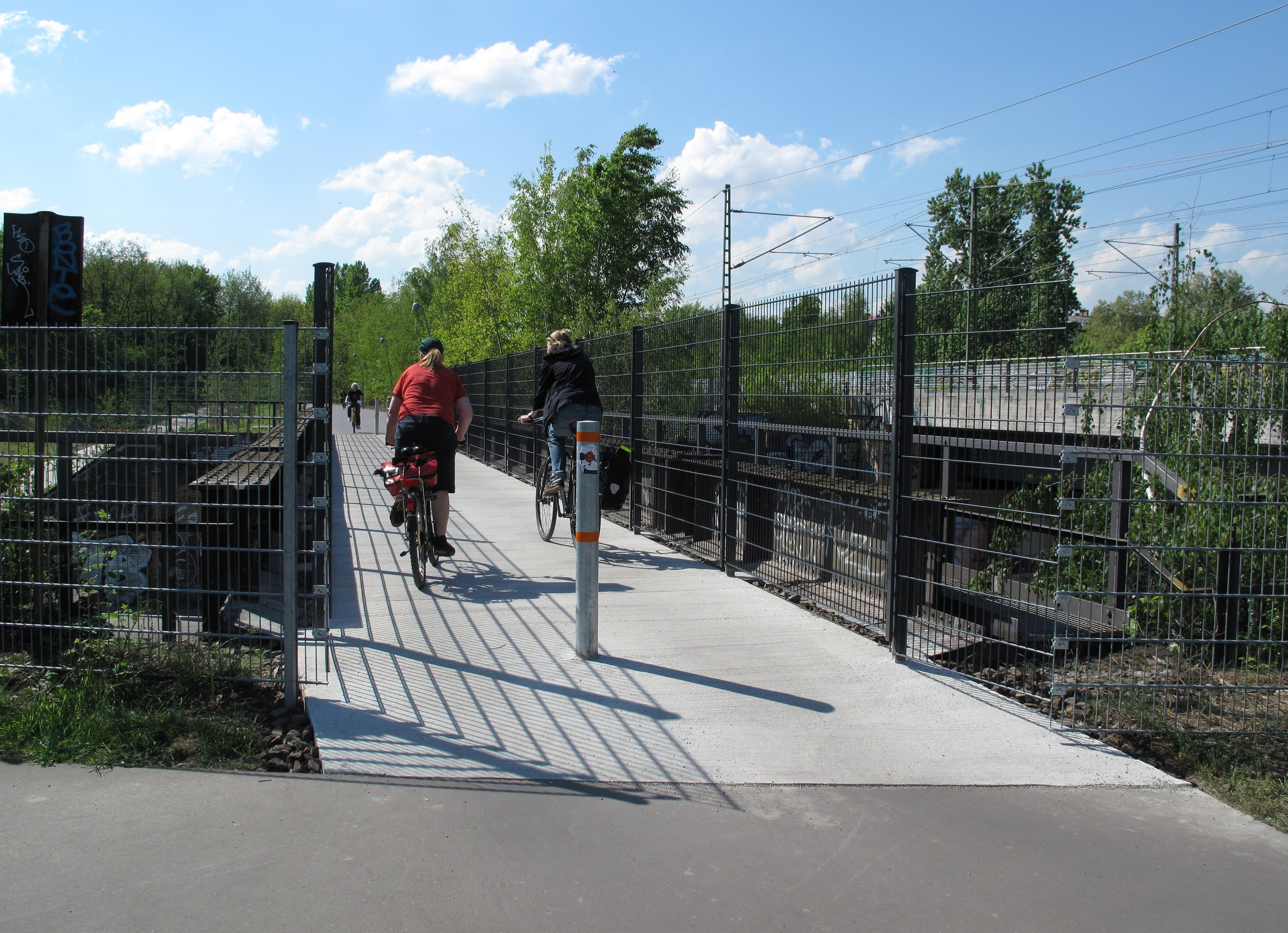 Yorckbrücke Nr. 10, direct connection between the Ostpark and Flaschenhalspark, was opened on April 17, 2014. View to the Flaschenhalspark. The Flaschenhals or Flaschenhalspark is a 5,5 hectare part of the Park am Gleisdreieck in Berlin-Schöneberg, Germany. The Flaschenhals was opened on March 21, 2014.